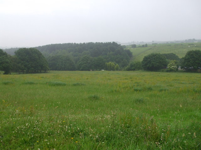 Grazing land off Ned Lane towards Holme Wood